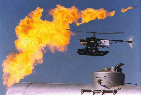 Southern Polytechnic State University aerial robot flying at the DoE HAMMER facility in Washington State as part of the International Aerial Robotics Competition.